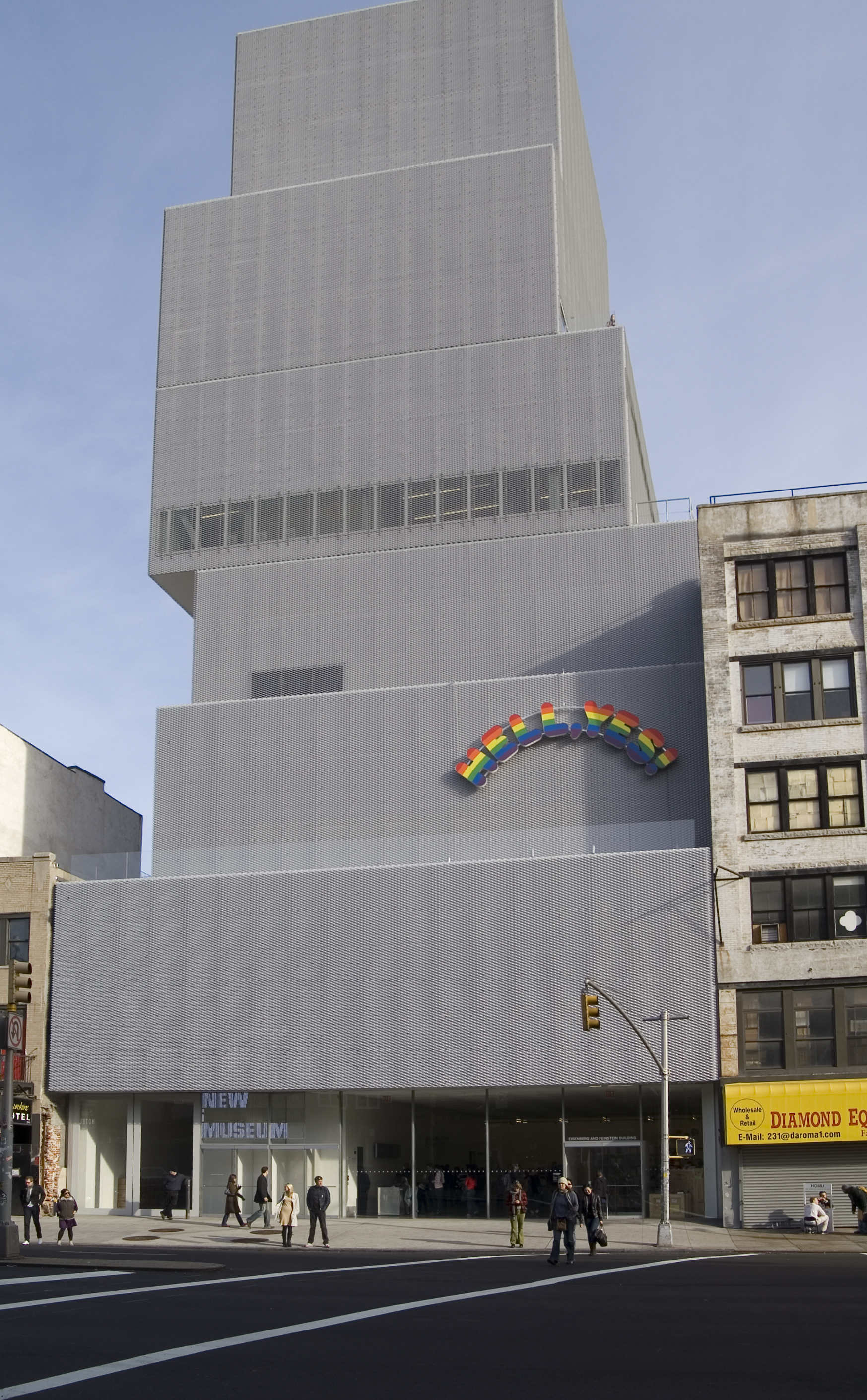 New Museum of Contemporary Art